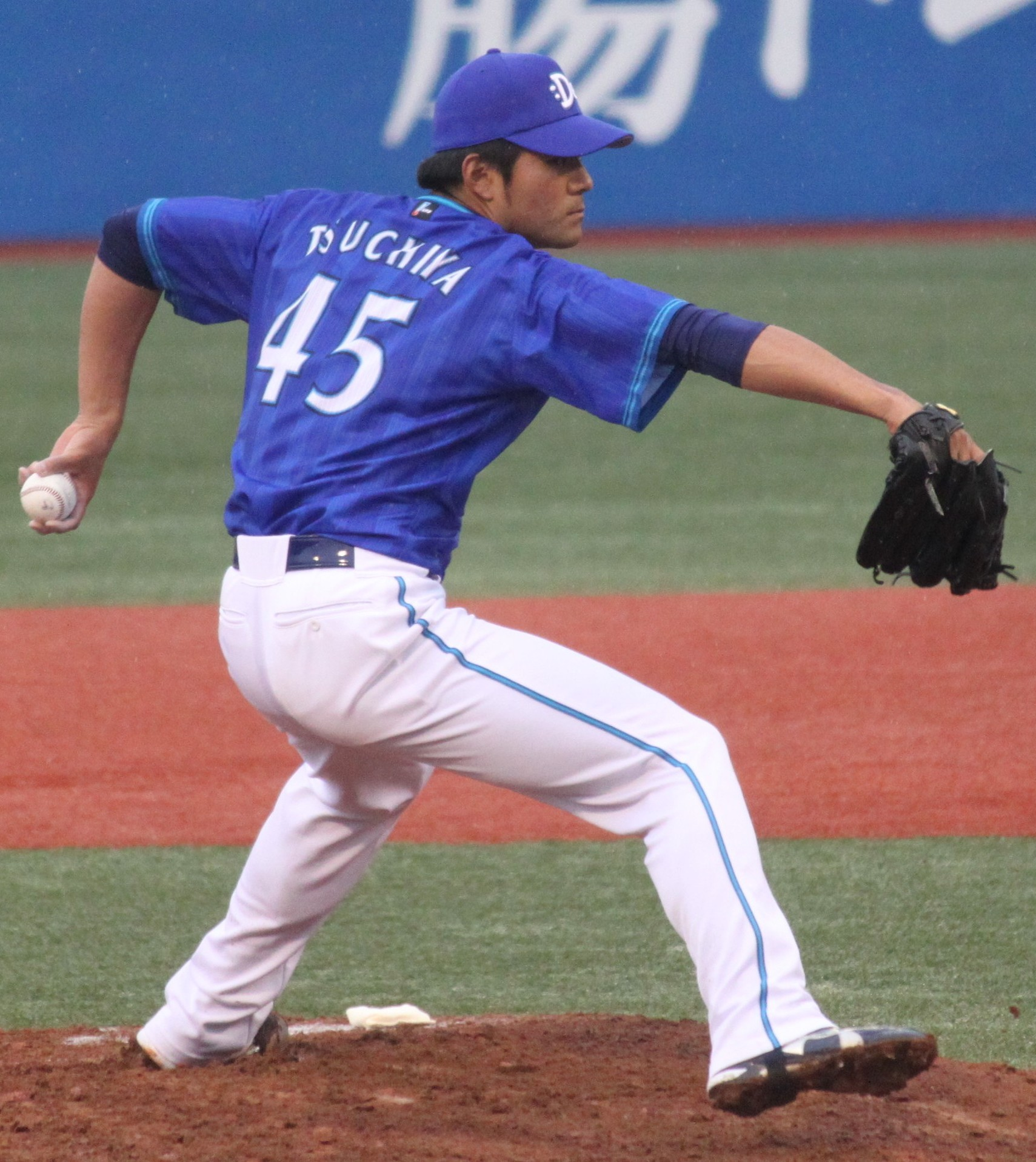 Kenji Tsuchiya, pitcher of the Yokohama DeNA BayStars, at Meiji Jingu Stadium.